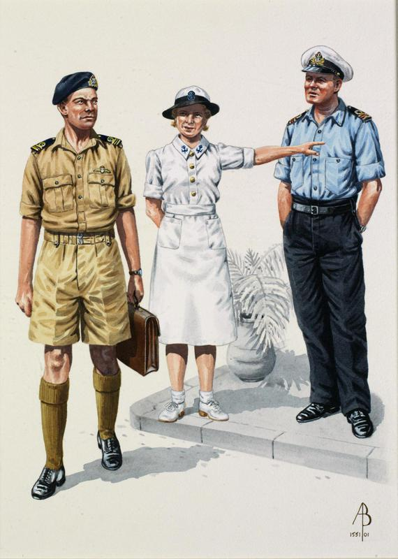 Pacific and Far East- Royal Navy Ww2- Lieutenant Commander, Pacific 1945; Wrns Chief Wireless Telephonist, Far East 1945; surgeon Lieutenant Commander, Rnvr, Pacific 1945 image: Three depictions of naval personnel. On the left is a Lieutenant Commander, wearing in a khaki Far-East service uniform and holding a briefcase. In the centre is a WRNS Chief Wireless Telephonist, wearing a white hat and uniform, her arm raised pointing to the right. Standing on the right is a Surgeon Lieutenant Commander, RNVR, wearing a Navy-issue blue shirt, dark trousers and white cap.